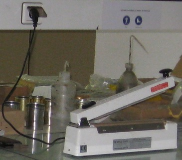 Impulse sealer with cutter for sealing plastic bags.